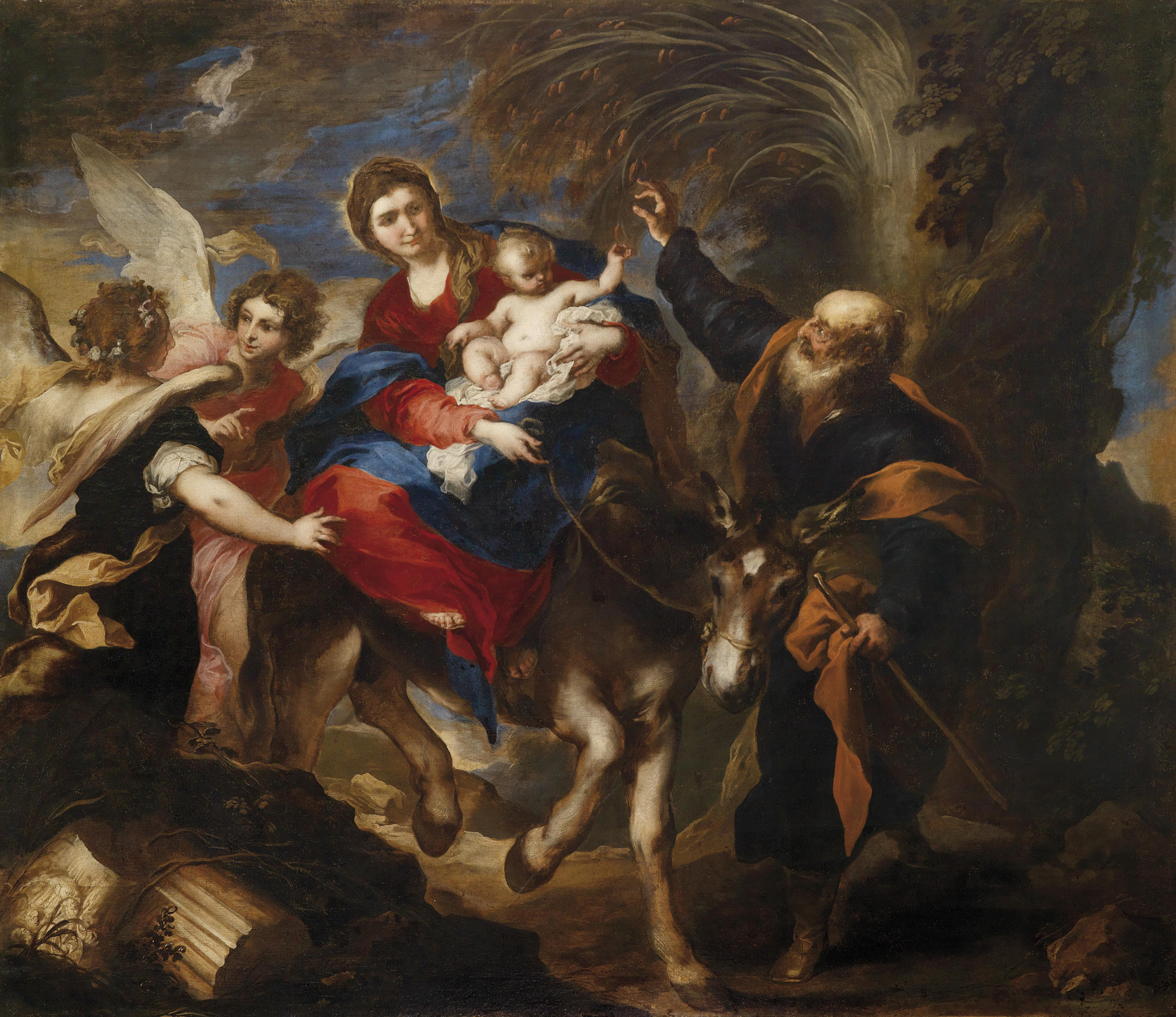 The Flight into Egypt